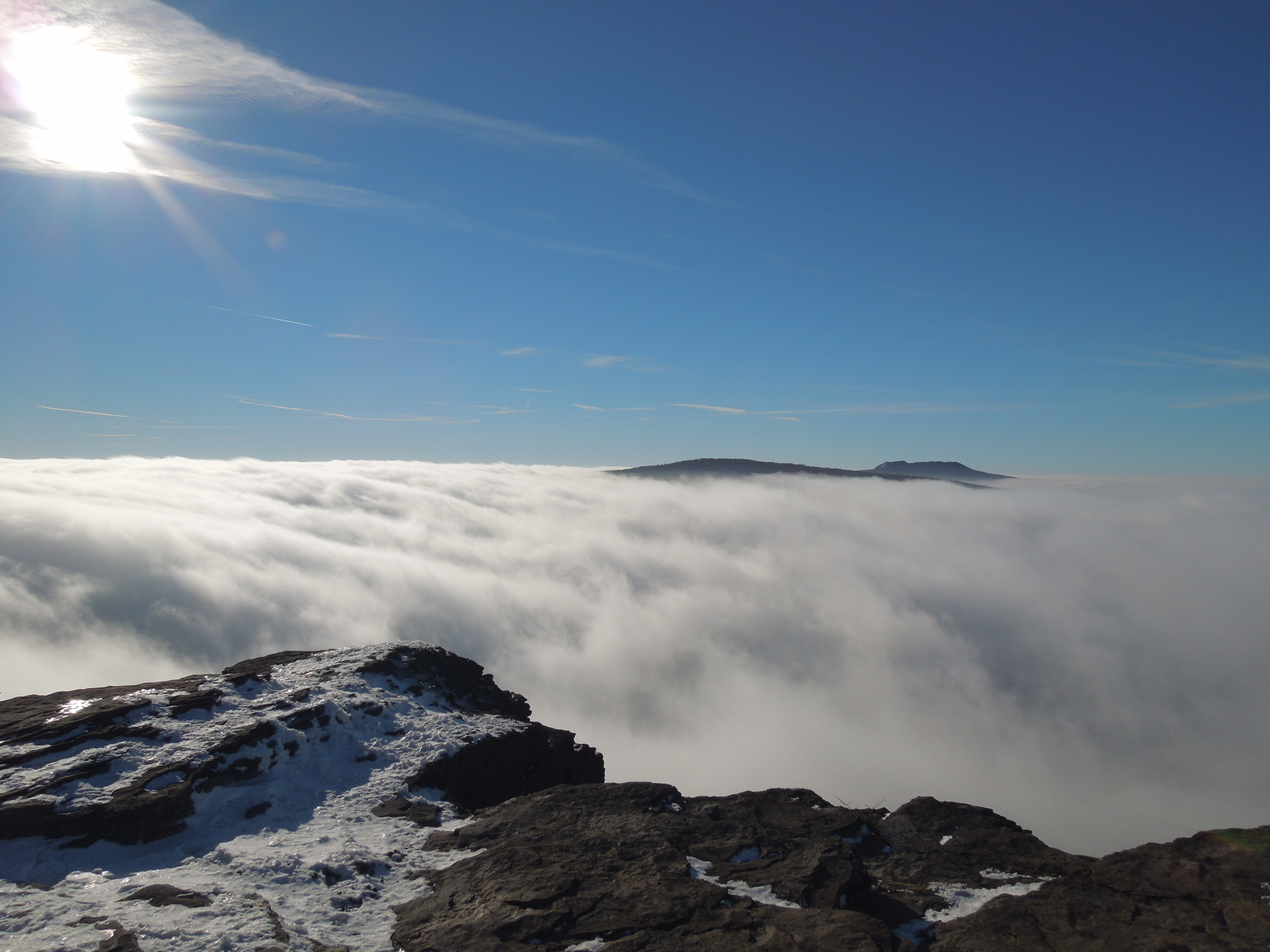 Inversion on Sninský kameň, view on Motrogon and Vihorlat (right) This is a photography of Natura 2000 protected area with ID SKUEV0209